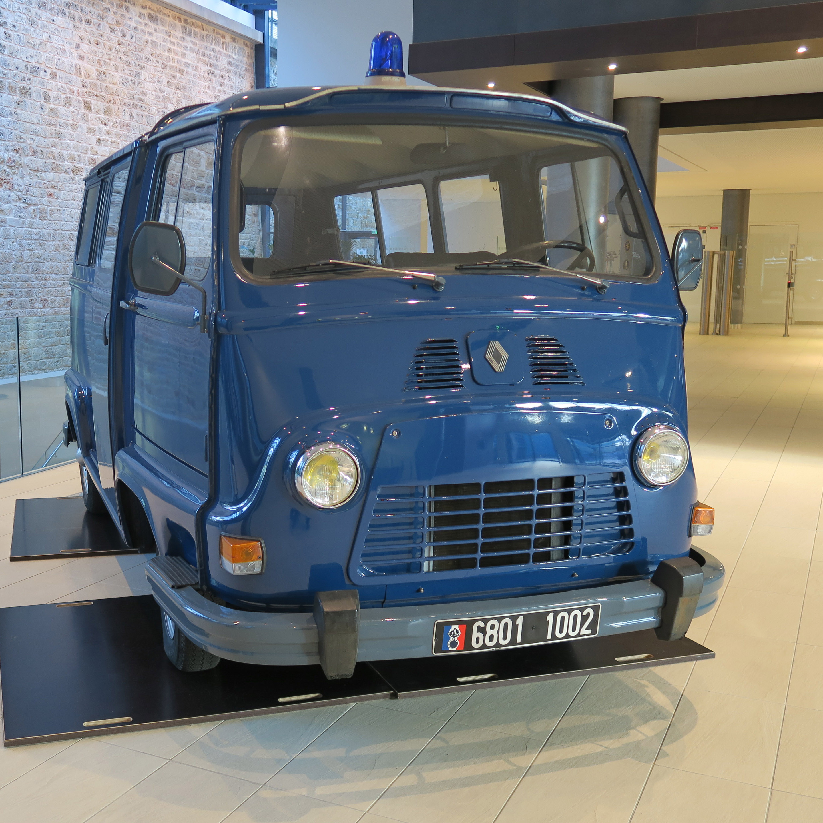 Renault "Estafette" French Gendarmerie van used in the 1960s and 1970s.